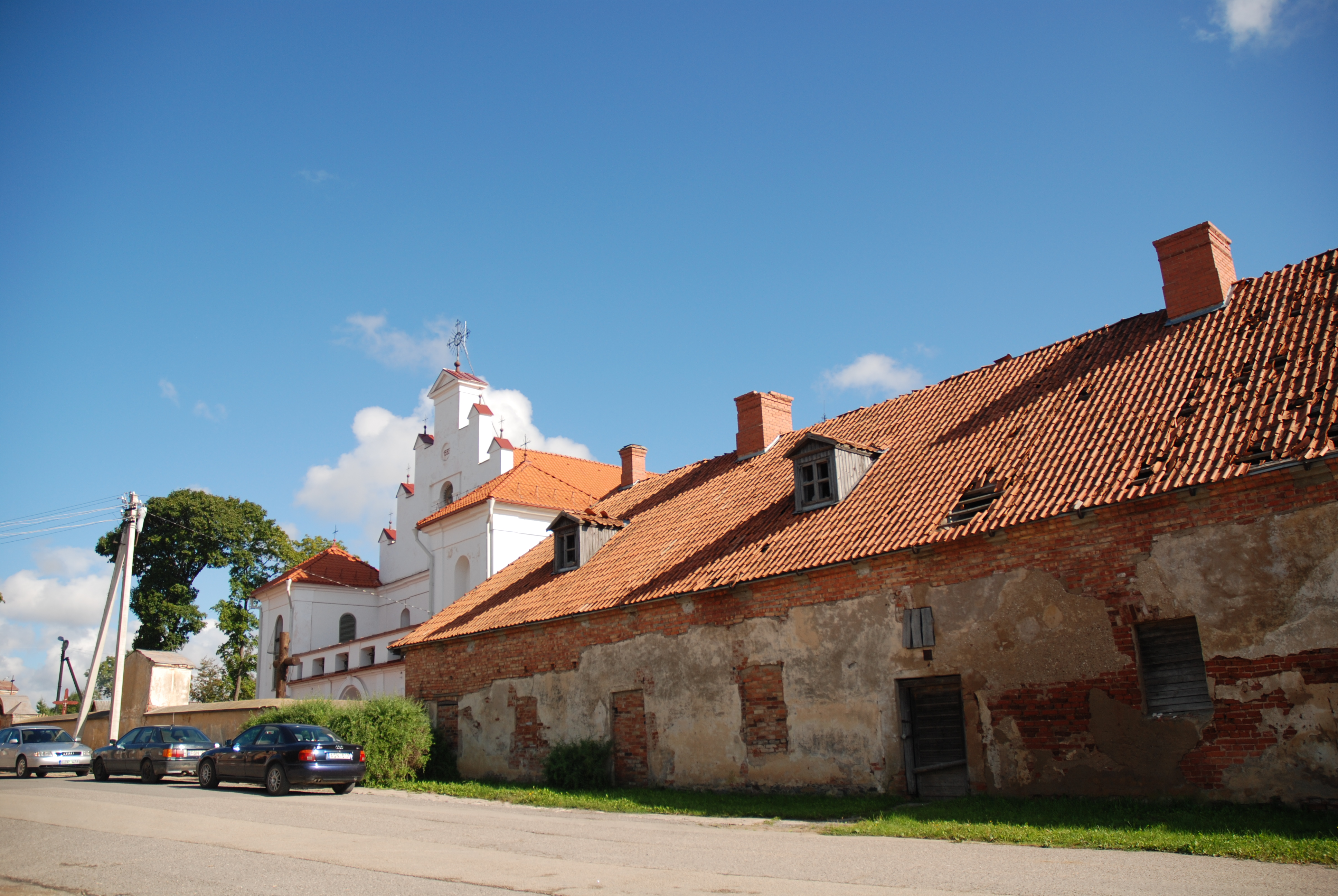 A Carmelite monastery in Linkuva, Pakruojis District, Lithuania